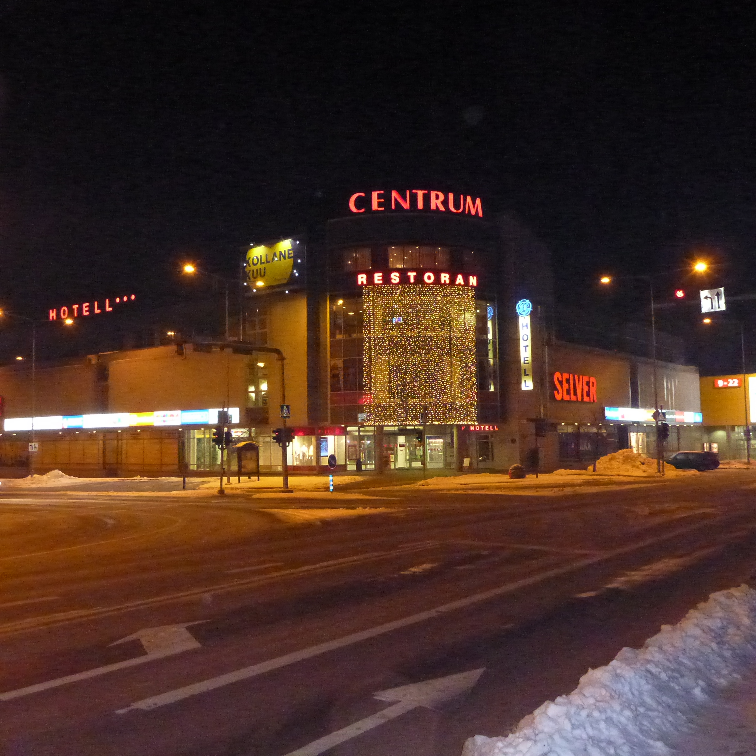 Viljandi by night